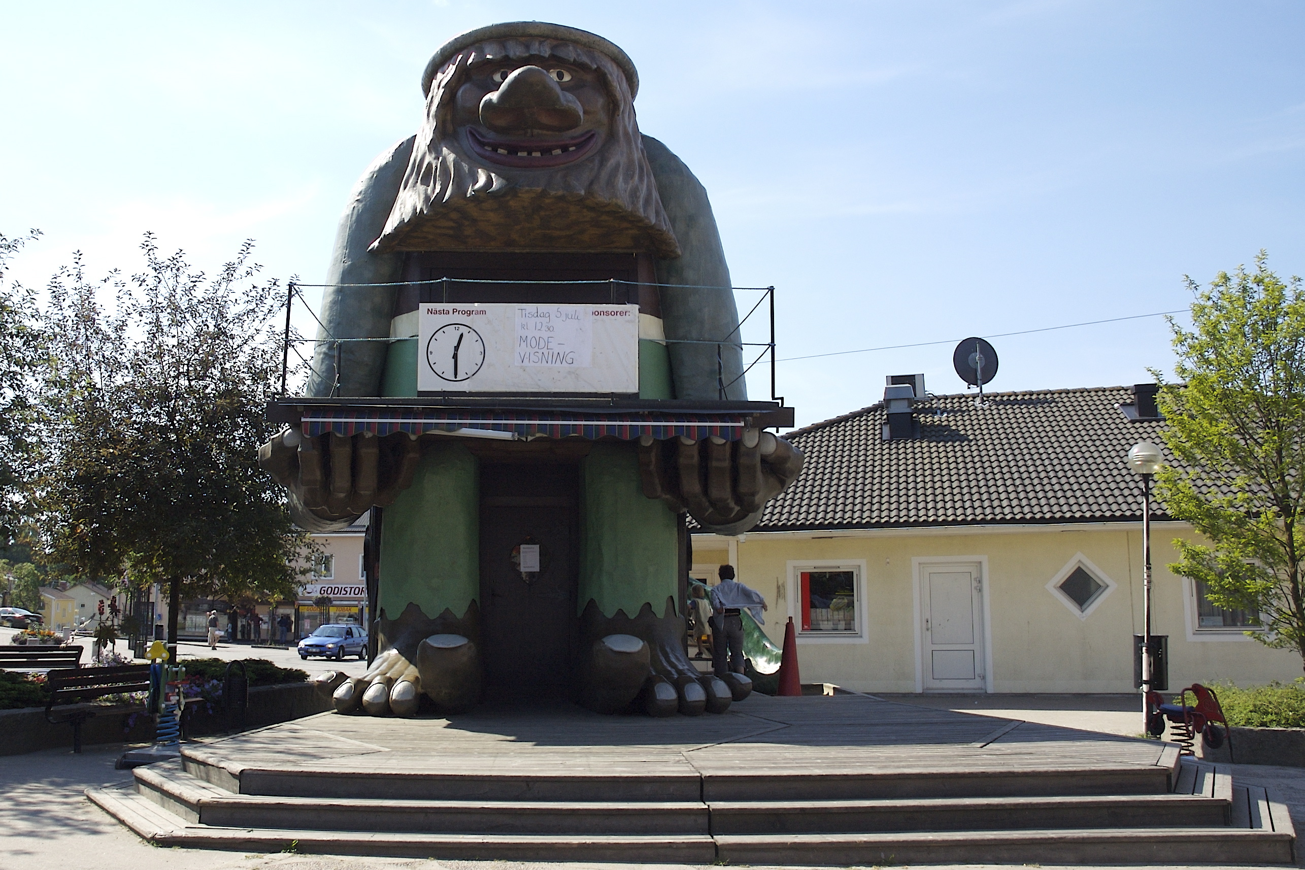 Troll statue in Årjäng, Sweden